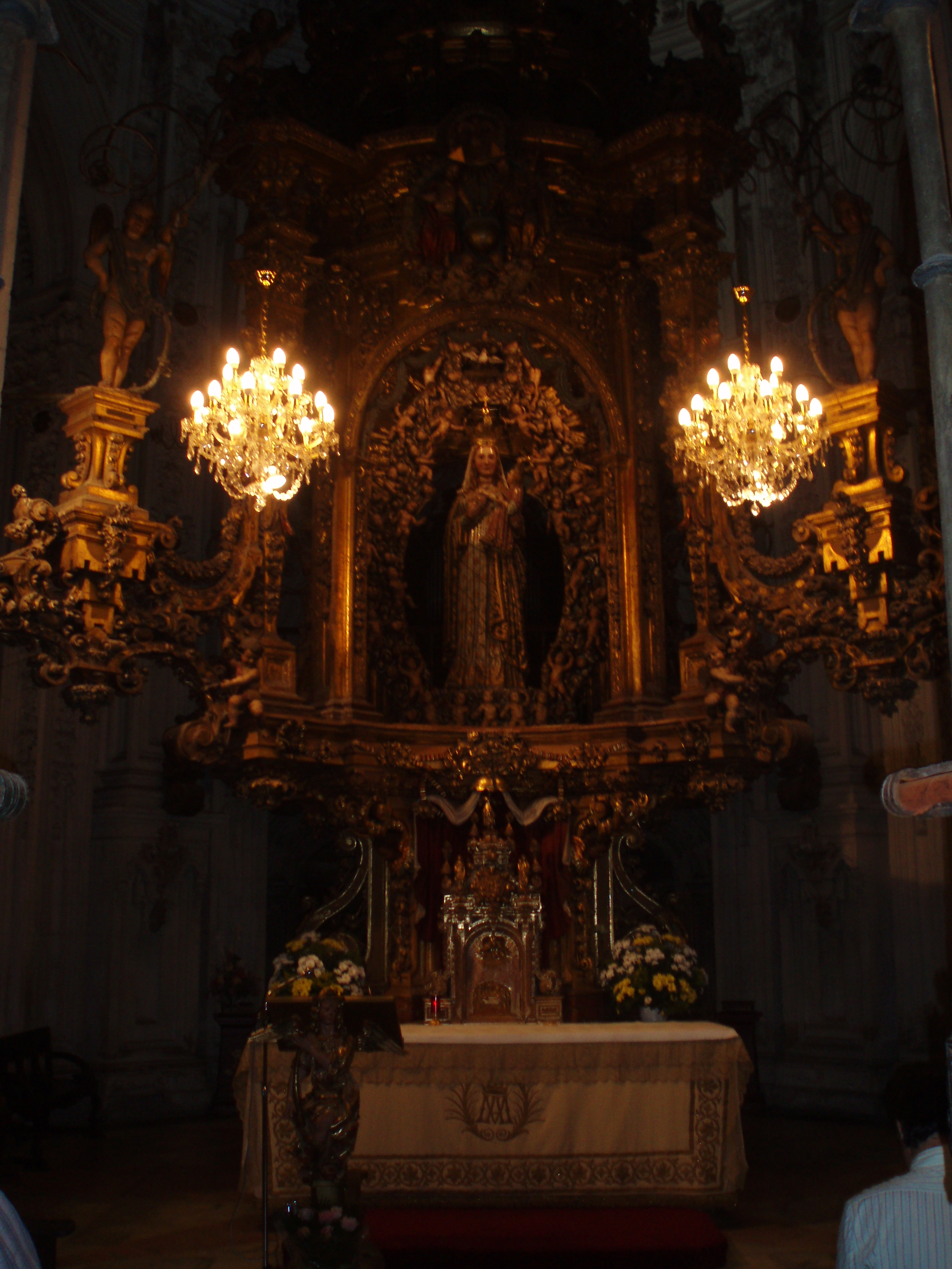 Cathedral of Lugo, in Galicia. (Spain).